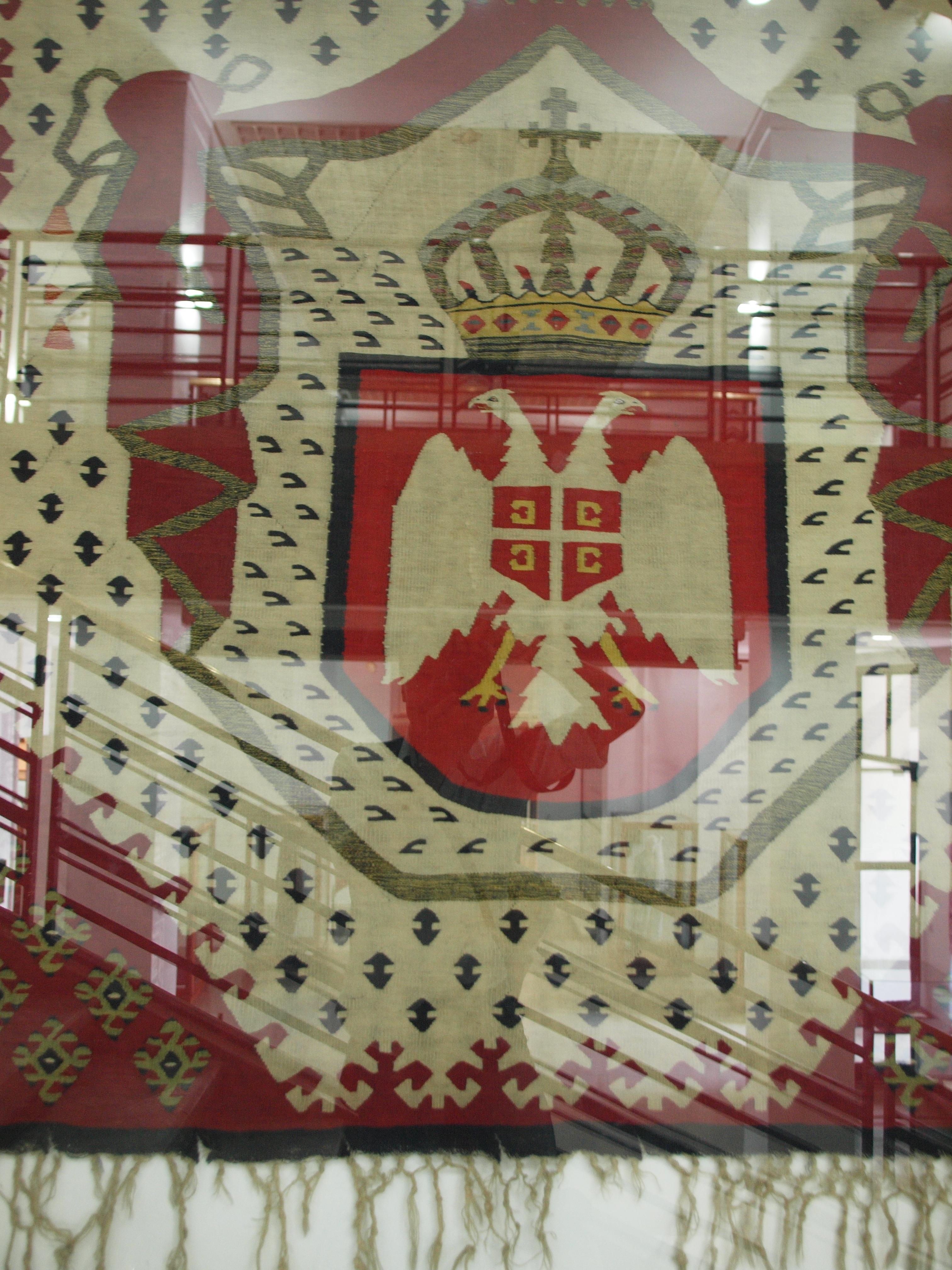 Pirot kilim grb srpske krune Ethnographical Museum Belgrade